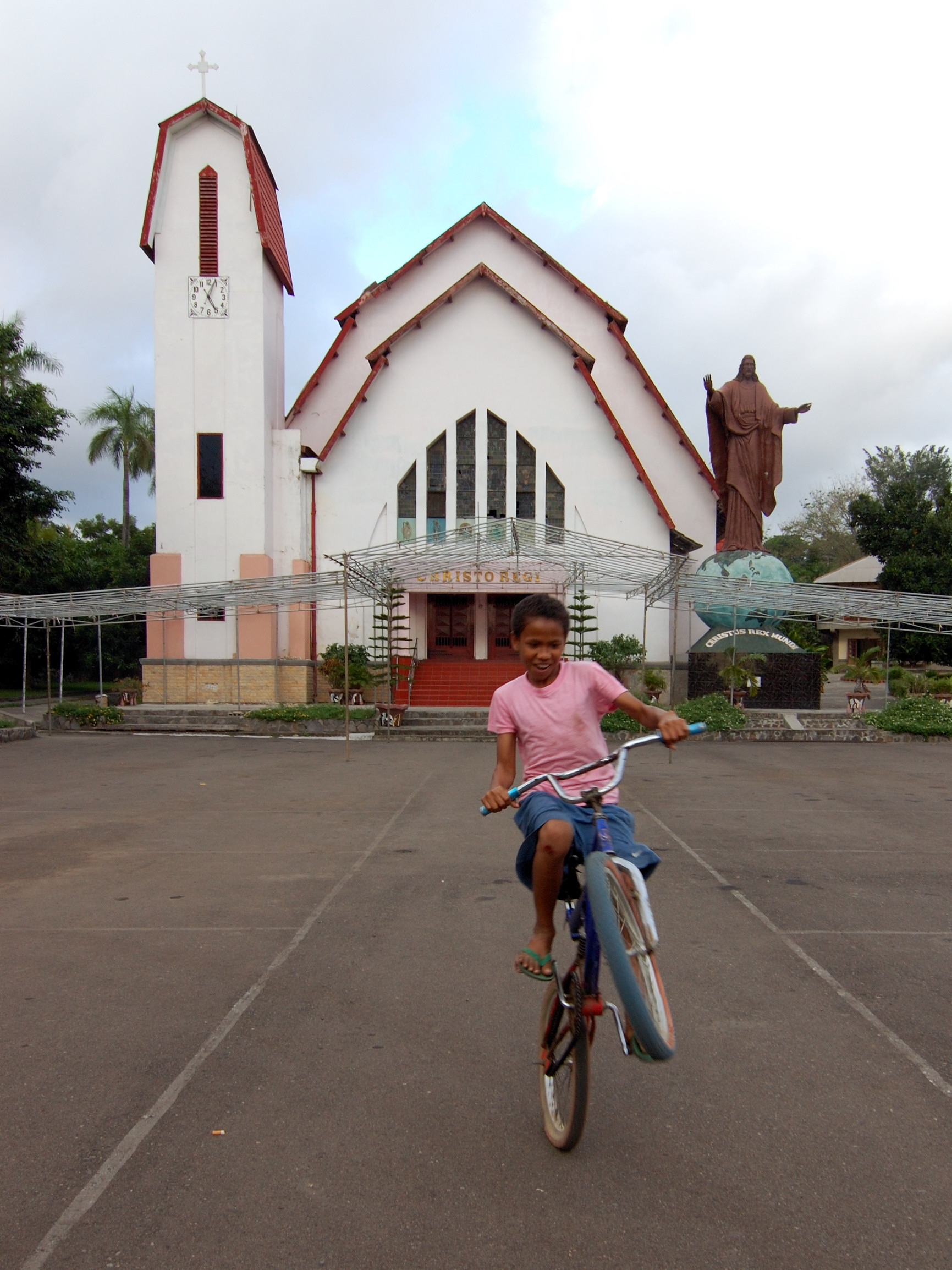 Ende catholic cathedral (Indonesia)